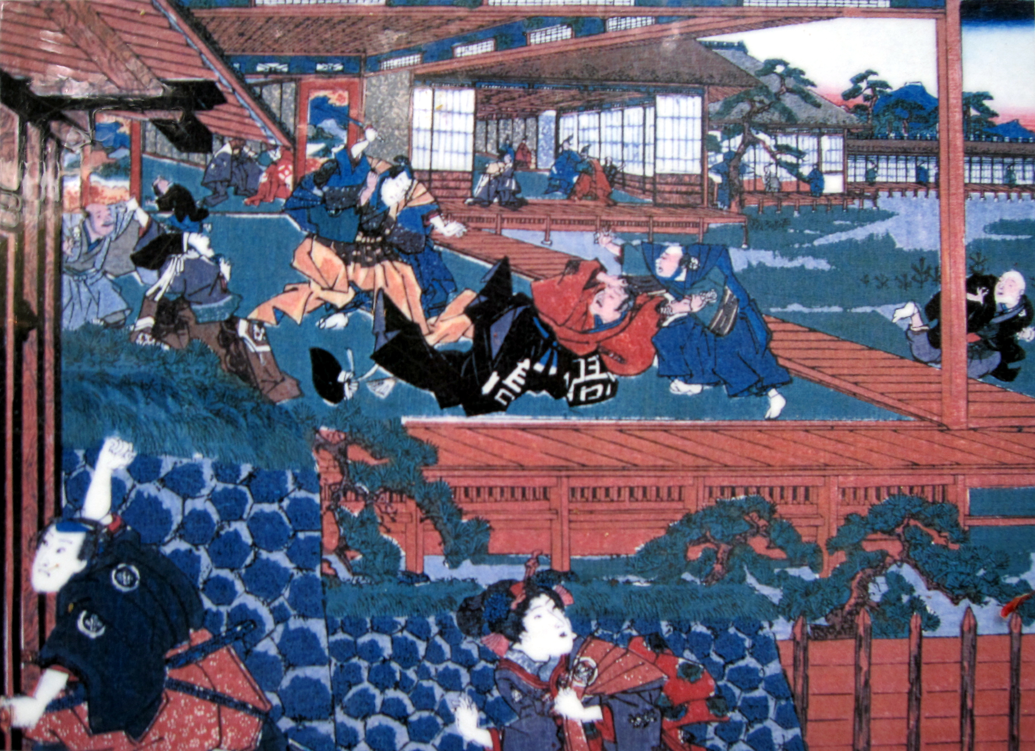 Ukiyo-e scene from Chūshingura, depicting the assault of Kira Yoshinaka by Asano Naganori in the Matsu no Ōrōka of Edo Castle.